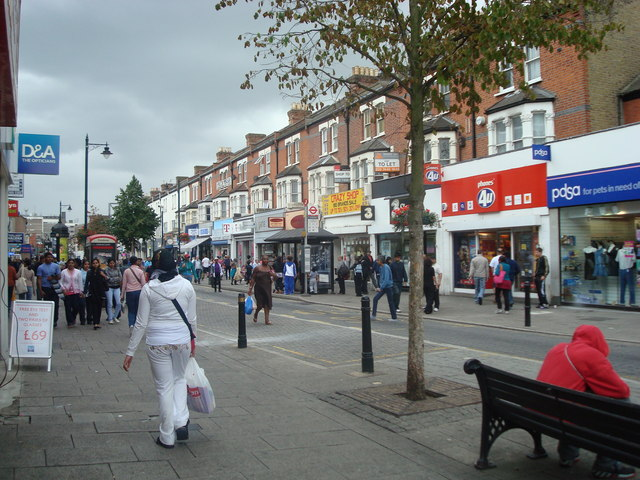 High Street North, East Ham, London E6